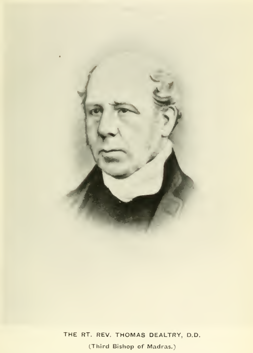 Thomas Dealtry, from Rev. Frank Penny's Book 'The Church in Madras, Volume III'(1922)